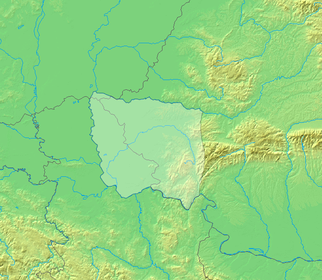 Based on a public domain map from